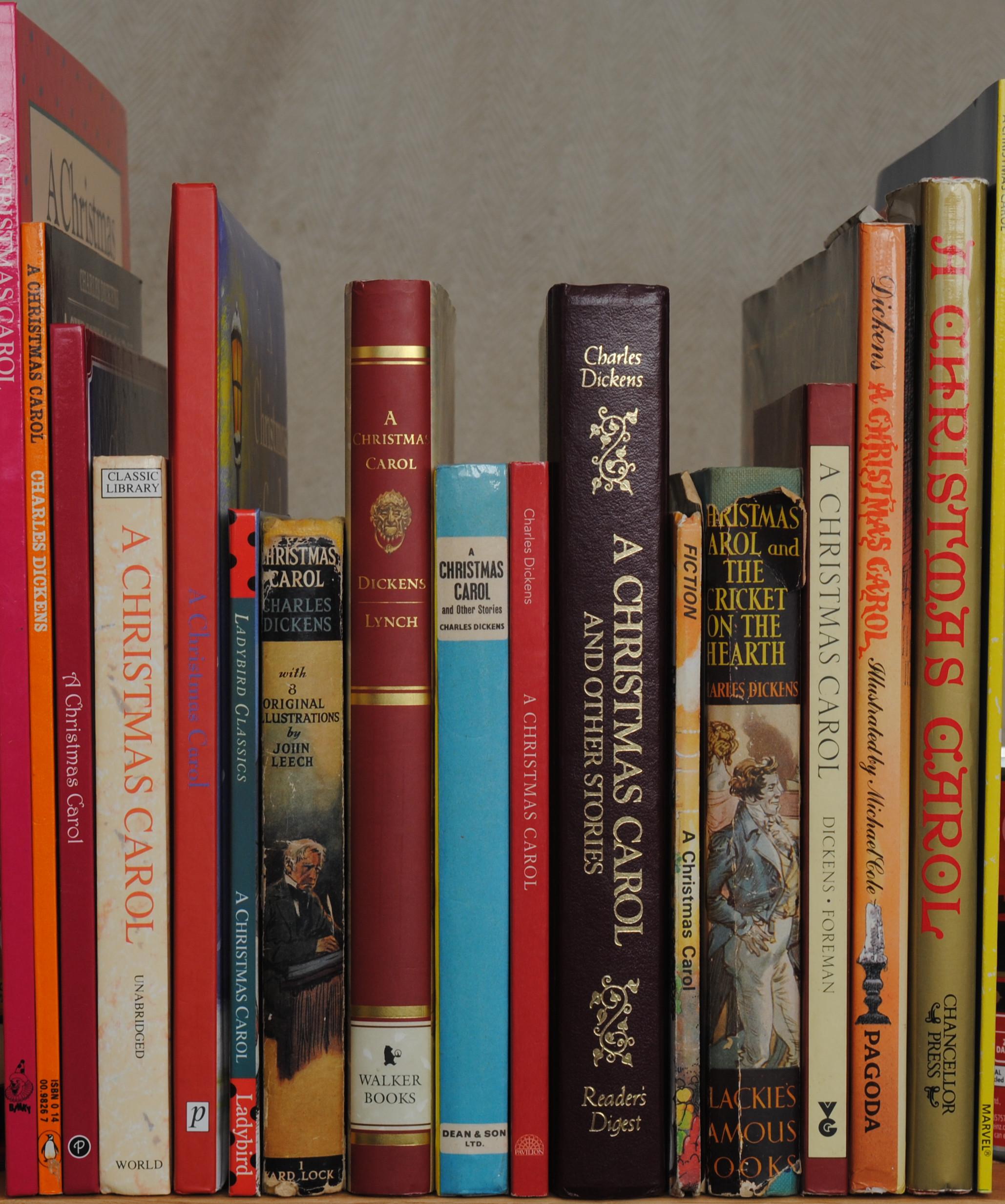 A shelf of editions of 'A Christmas Carol', by Charles Dickens, some also including other works